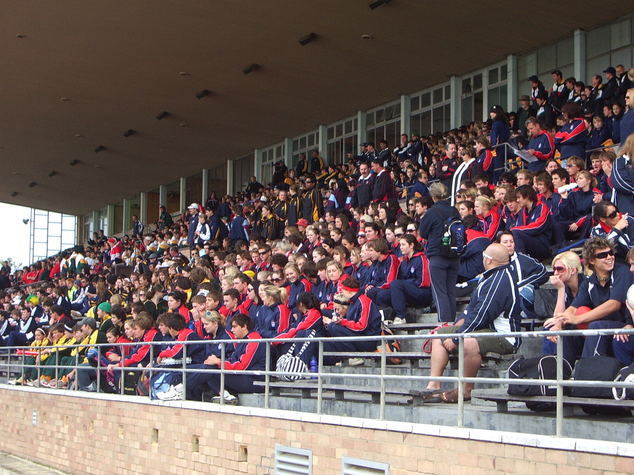 GSG and other schools at Perry Lakes Stadium stand